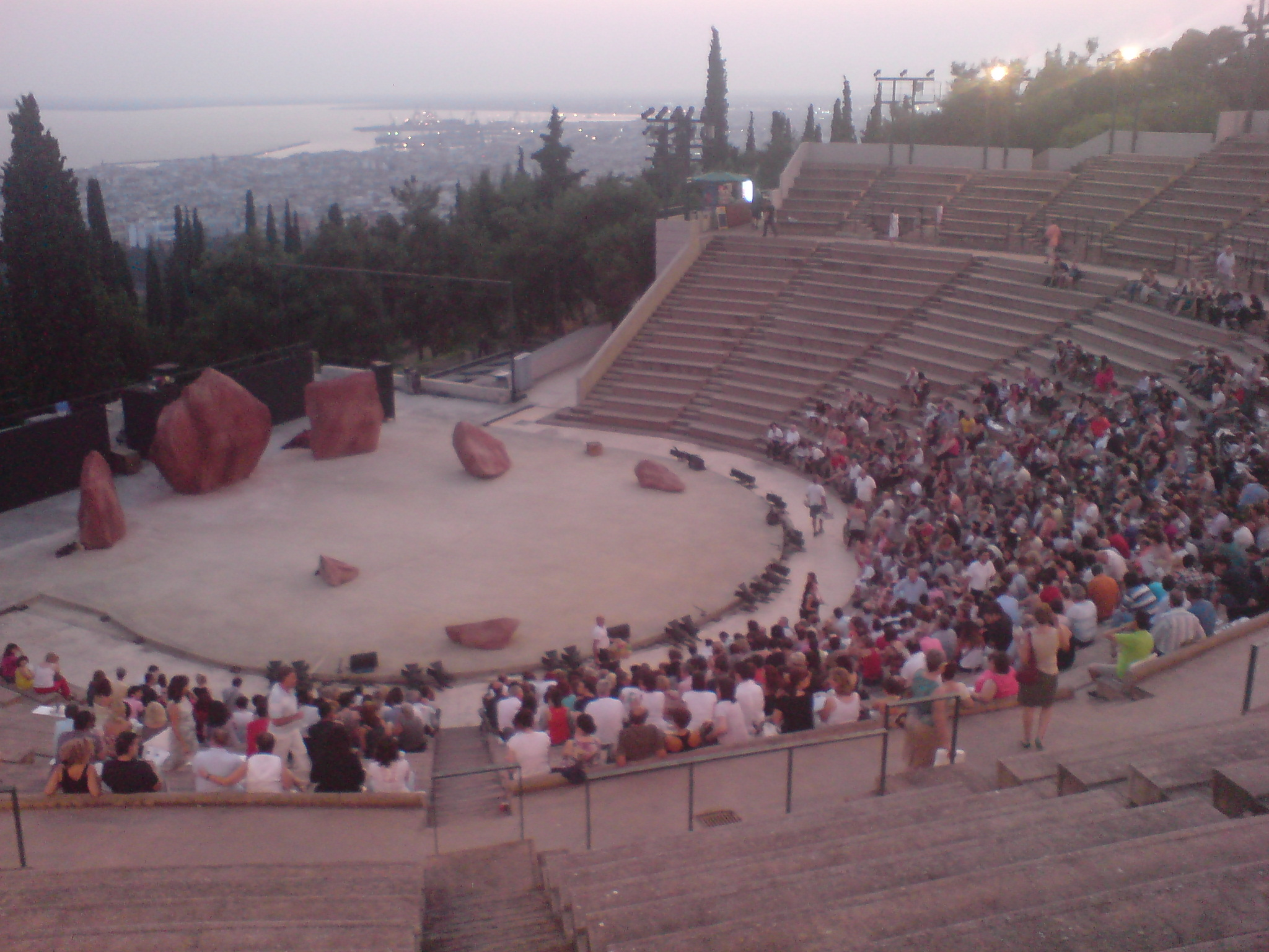 Thessaloniki theatron